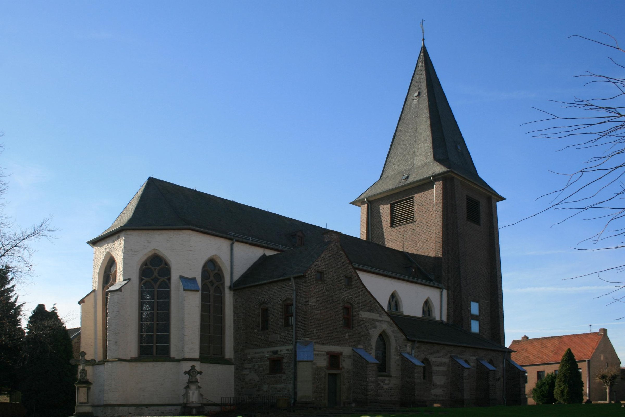 Cultural heritage monument No. 39 in Jülich